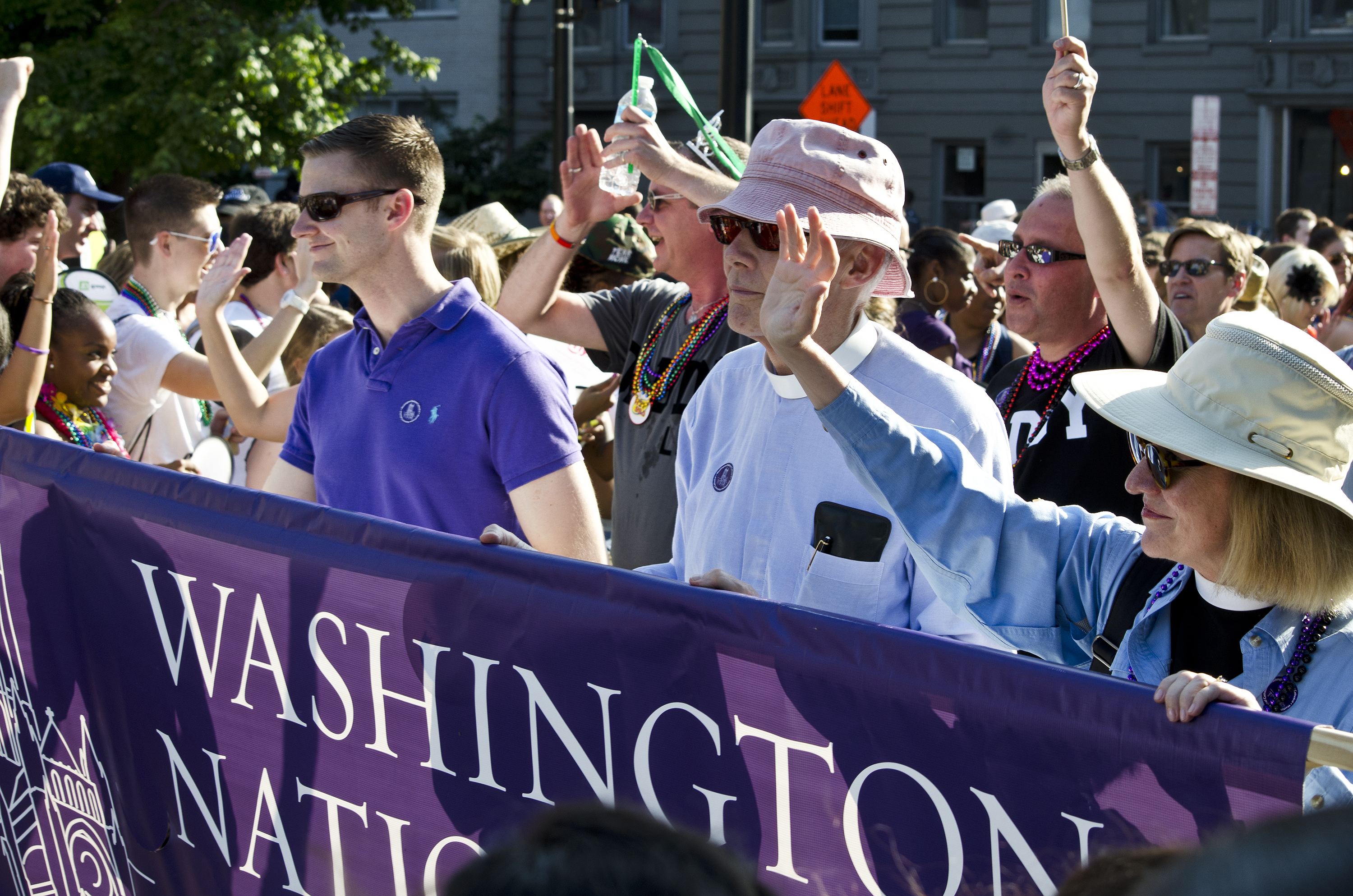 A contingent of about 30 staffers from the Washington National Cathedral marches in the Capital Pride parade in Washington, D.C., in the United States on June 8, 2013. This marked the first time the Episcopal cathedral had a contingent in the parade. In the center of the image, in hat and face partially obscured, is the Very Reverend Gary Hall, Dean of the Cathedral. The woman on the right side of the image is the Reverend Canon Jan Naylor Cope, Vicar of the Cathedral.